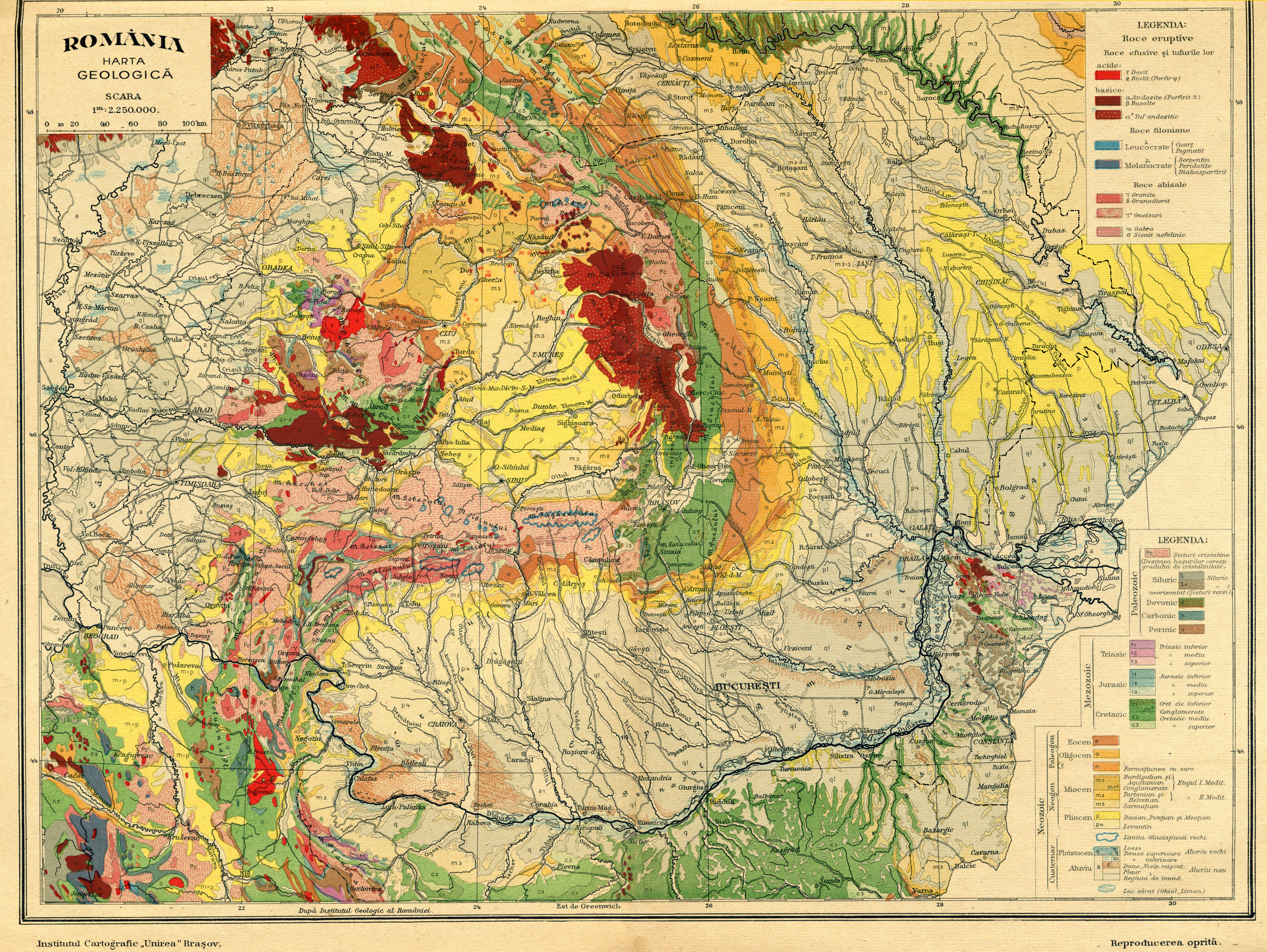 Geological map of Romania and neighboroughs. Frontières 2009.